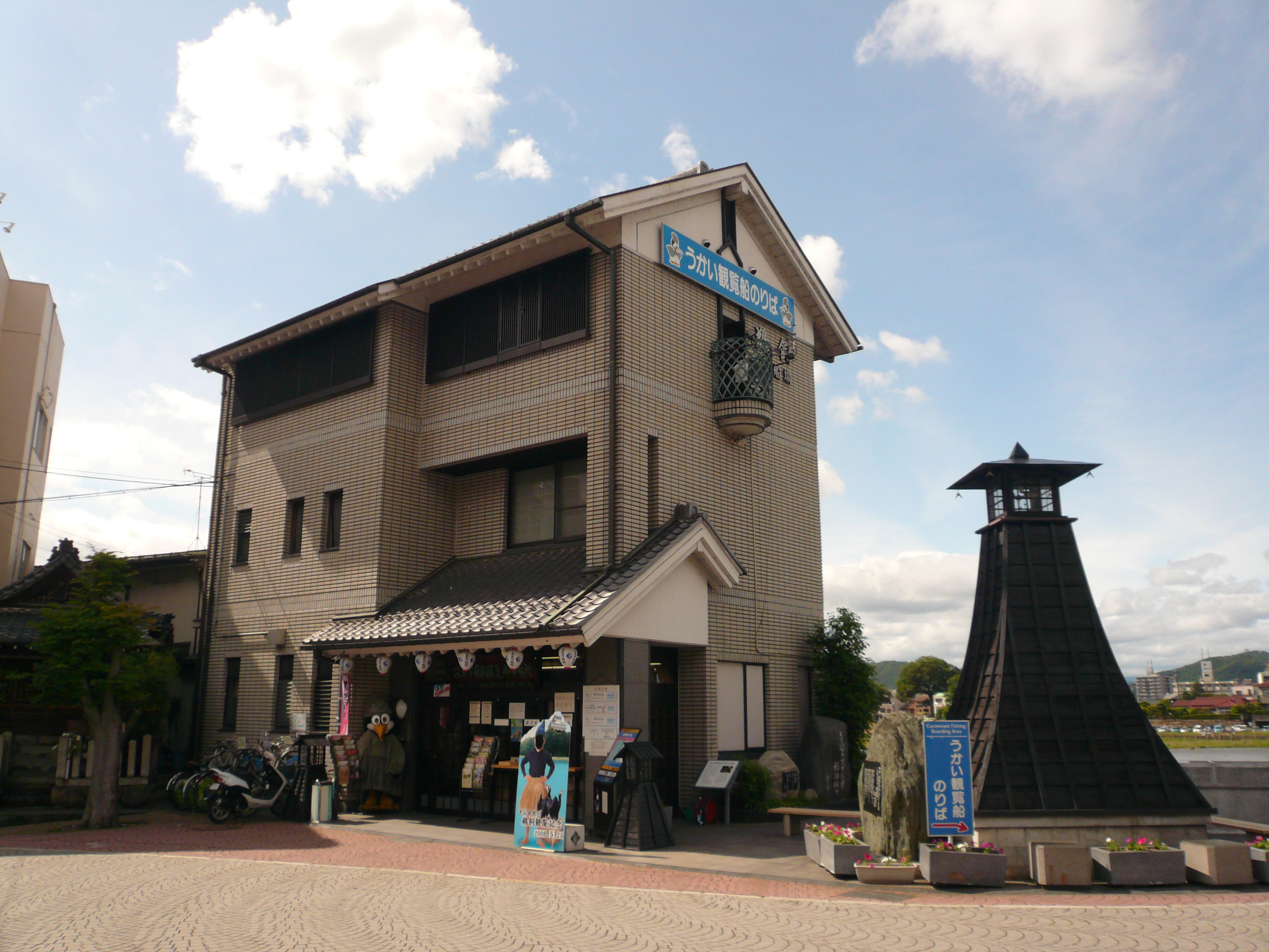 Cormorant Fishing Office（Cormorant Fishing on the Nagara River）, Gifu, Gifu, Japan